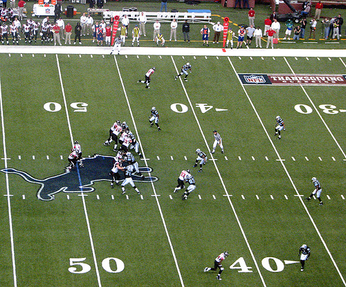 Michael Vick drops back to pass against the Lions.